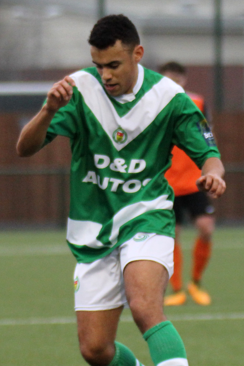 Ryan Richefond playing for Ashford United in a 4–0 defeat to Walton Casuals on Saturday 13 January 2018.